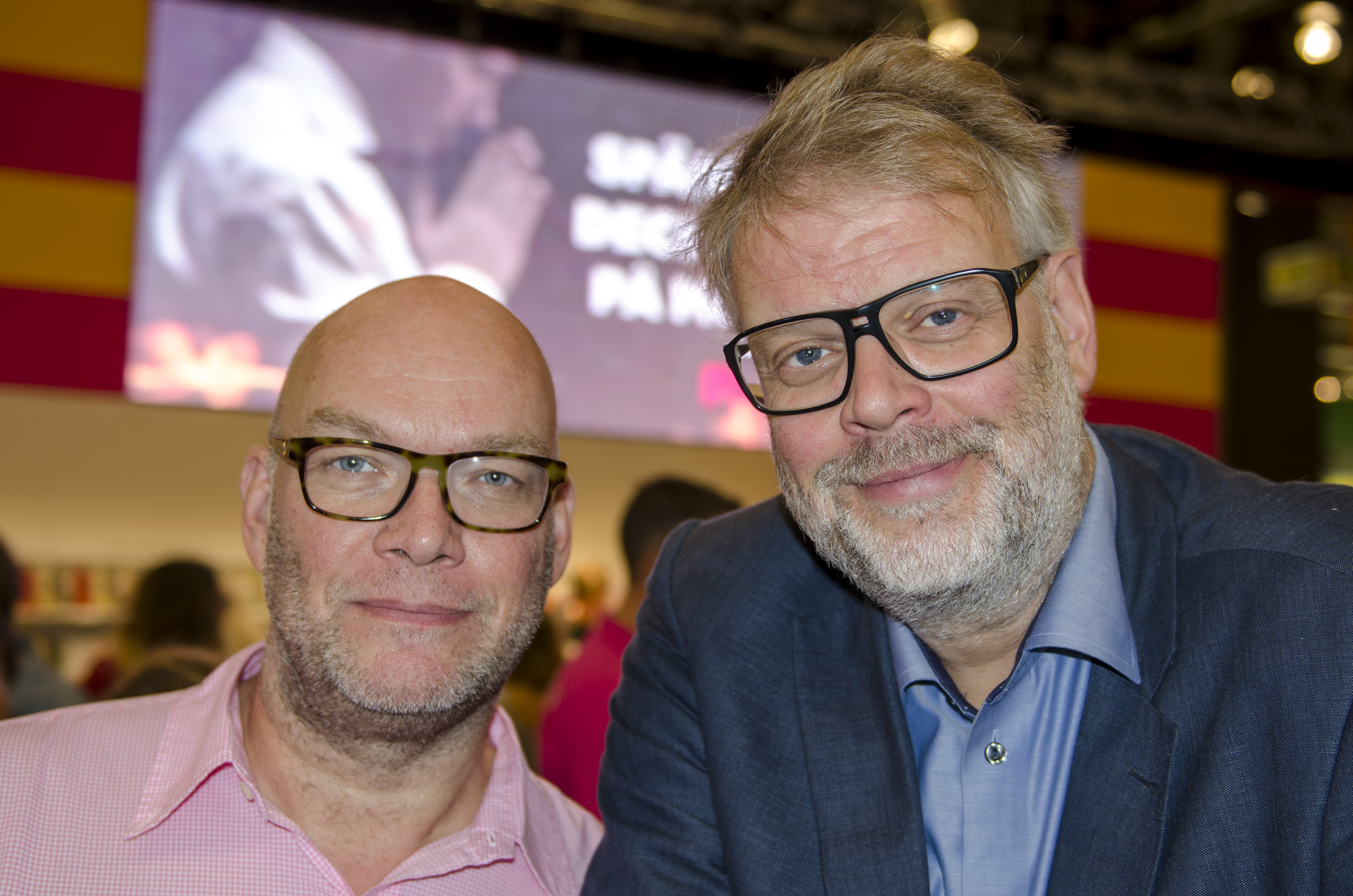 Michael Hjorth and Hans Rosenfeldt at the Gothenburg Book Fair 2014.